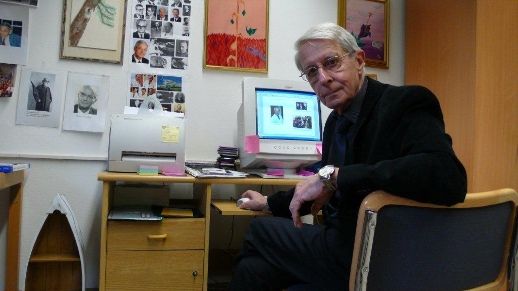 Photograph showing Athineos Philippu